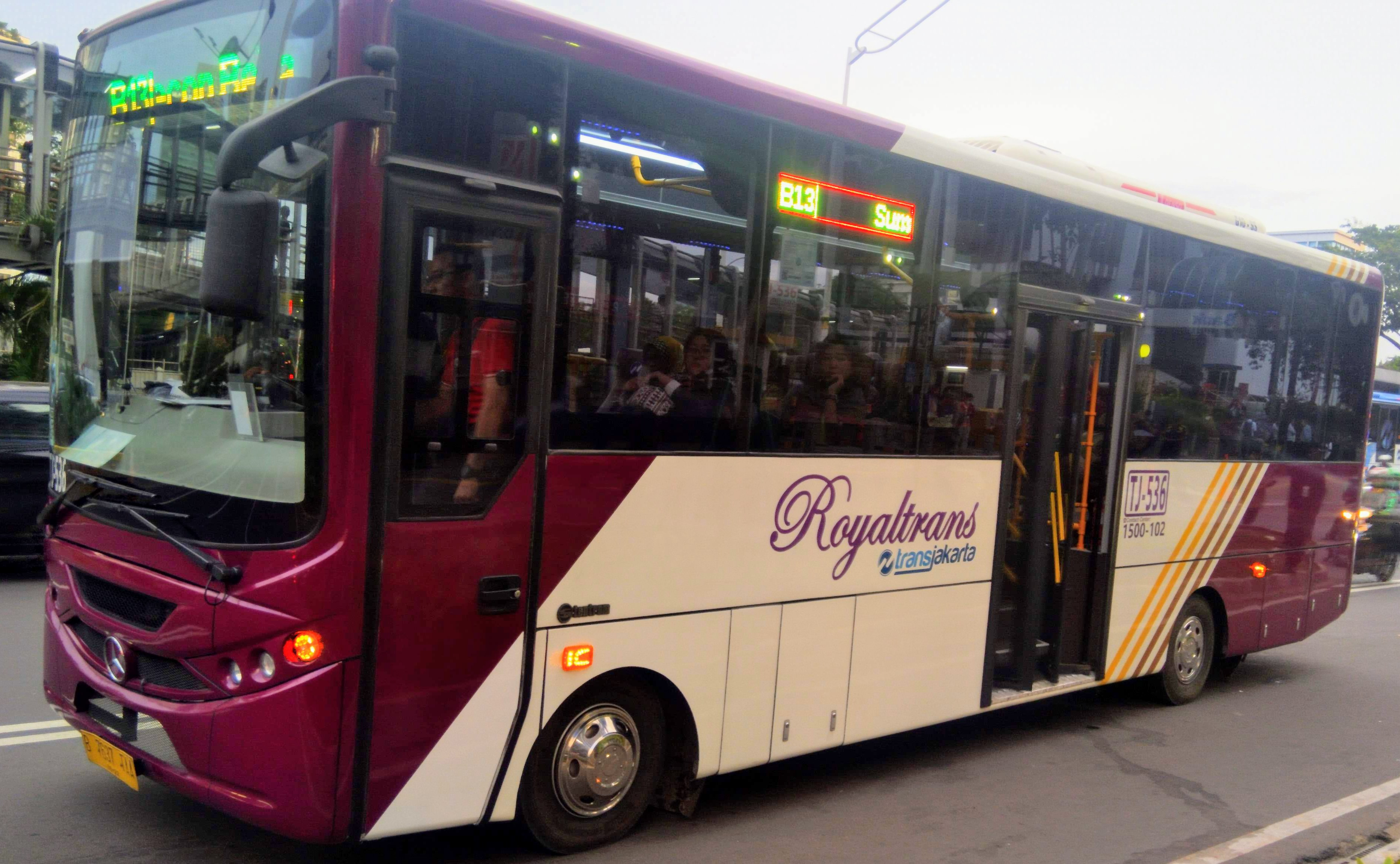 A RoyalTrans bus, at Senayan, Jakarta